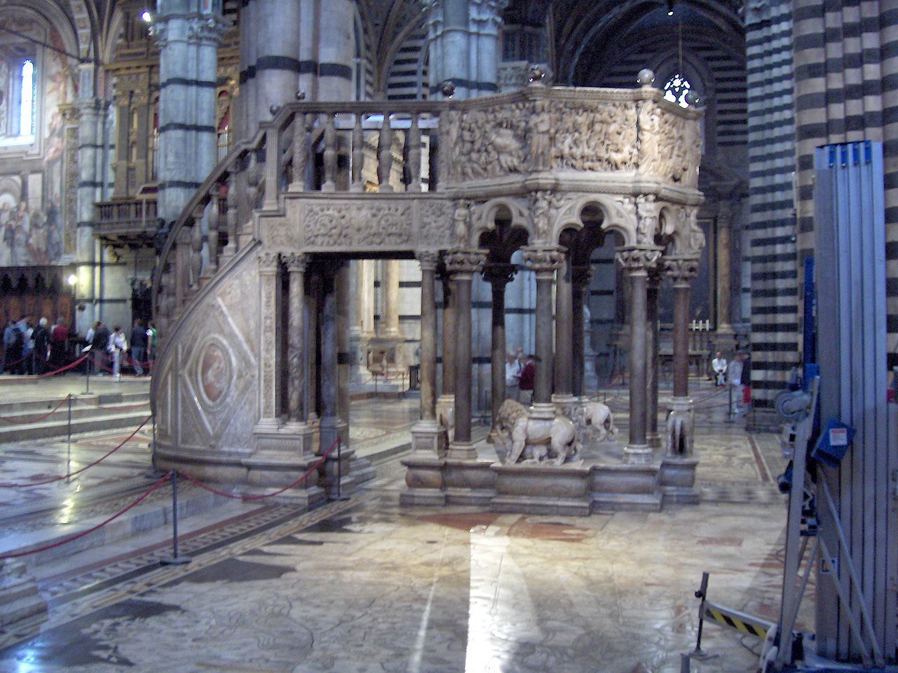 Pulpit by Nicola Pisano; Duomo; Siena, Italy Own photo - photo made on 11 October 2005